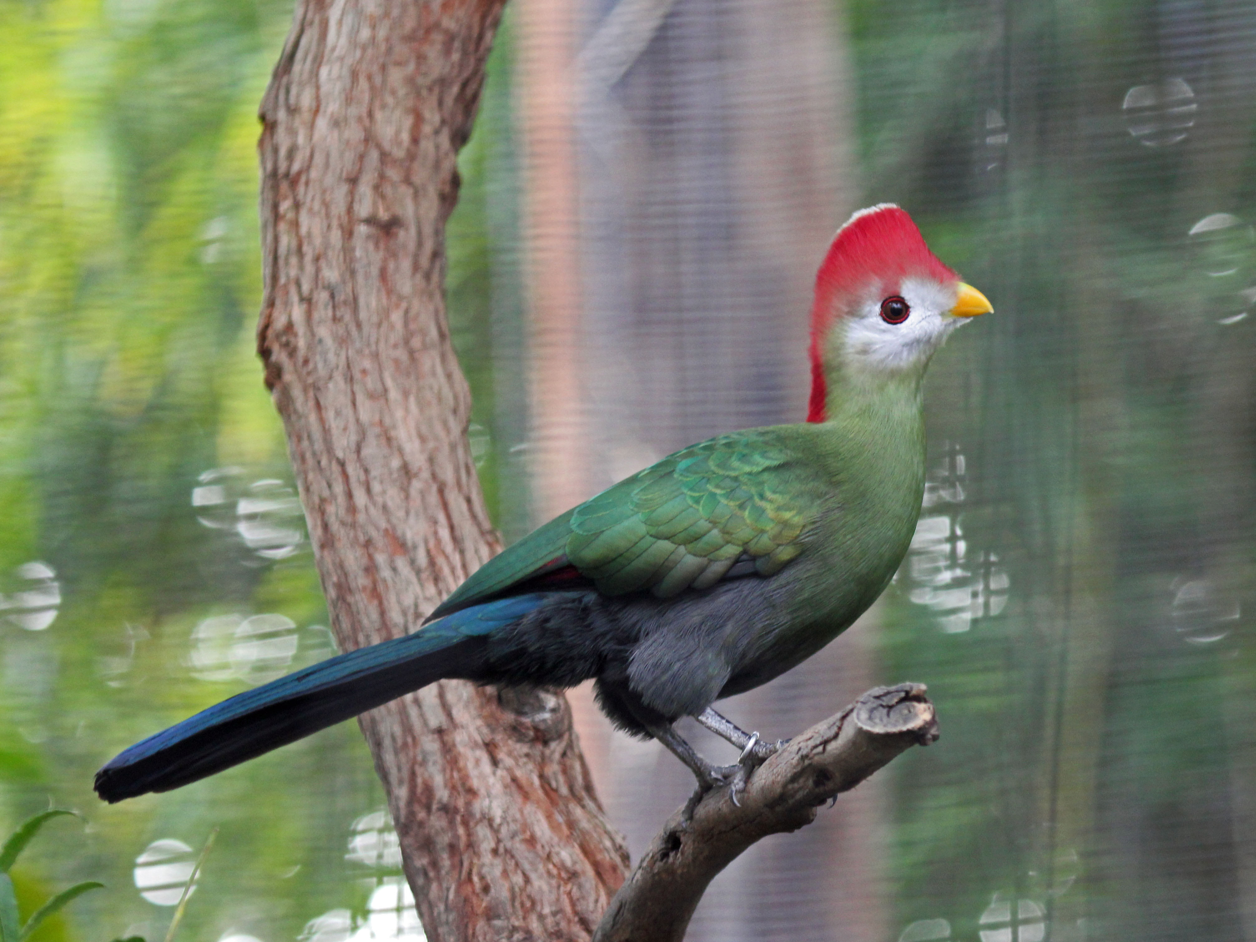 Red-crested Turaco (Tauraco erythrolophus) - San Diego Zoo